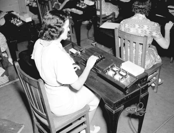 New Orleans, 1938. New Orleans Hydrographic Office. "WPA white collar workers making punch cards of the hydrographic chart for use eventually in revising pilot charts. A good operator can turn out 1,500 punch cards daily, as compared with some 300 if computed by hand. Both methods are used on the New Orleans project. Interior." The keypunch machines are the IBM Type 016 Electric Duplicating Key Punch introduced in 1929. [1]